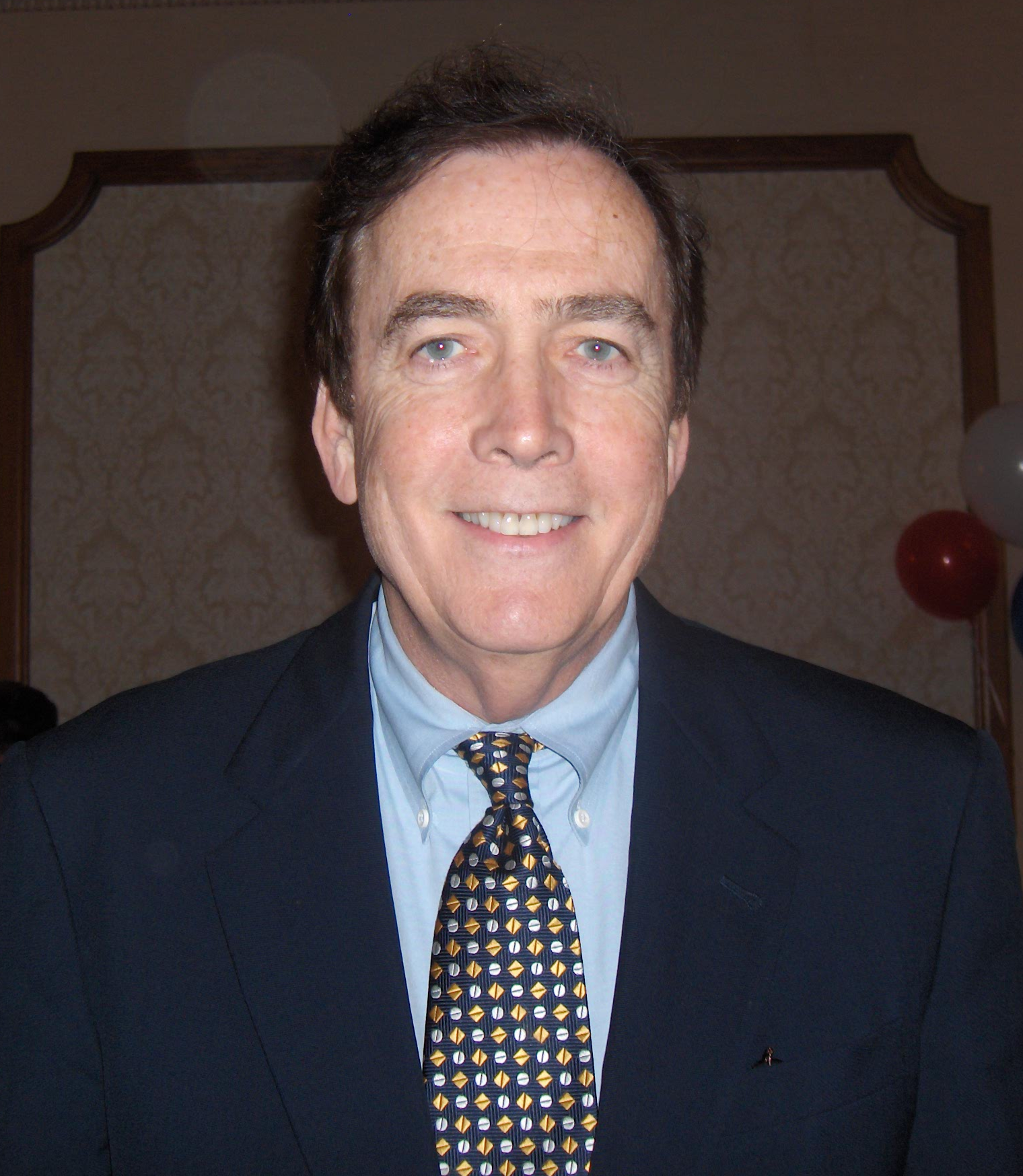 Councilman Brian J. O'Neill, Minority Leader of Philadelphia City Council. Member since 1980. Term expires 2012.